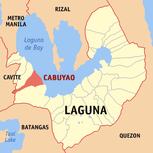 Locator map of Cabuyao in Laguna, Philippines.